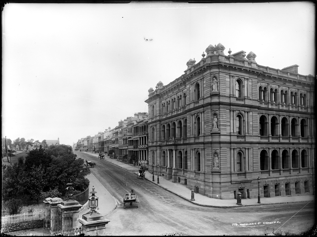 'Sydney City' Pictures from The Powerhouse Museum This files was posted to Flickr by The Powerhouse Museum (See their website for further information). Many thanks to the Powerhouse Museum for helping release this wonderful material. This tag does not indicate the copyright status of the attached work. A normal copyright tag is still required. See Commons:Licensing for more information.